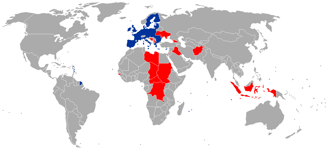 The European Union (including Member States’ dependencies/overseas territories) is in blue. Countries in which the European Union has intervened, either militarily or in a civilian context, are in red.